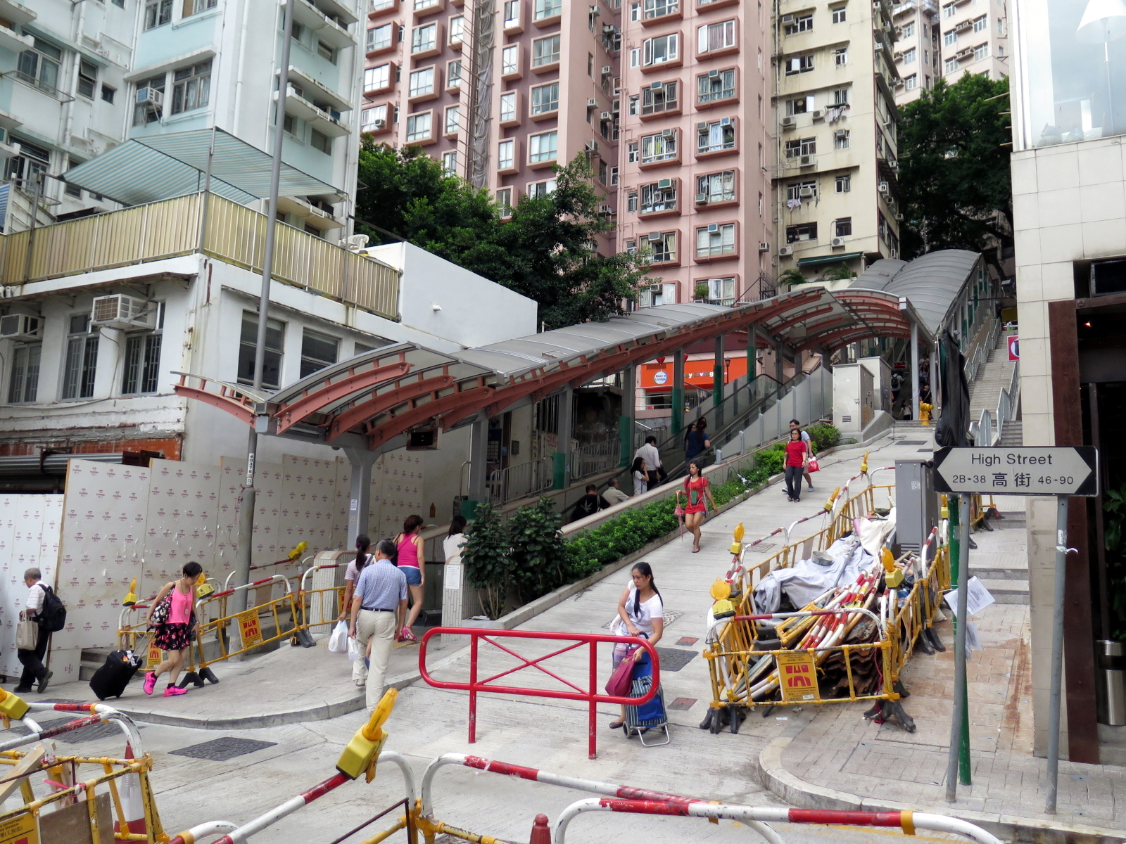 Centre Street Escalator Link Near High Street, Sai Ying Pun